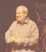 Photograph of Turkish singer and song writer Bülent Ortaçgil.